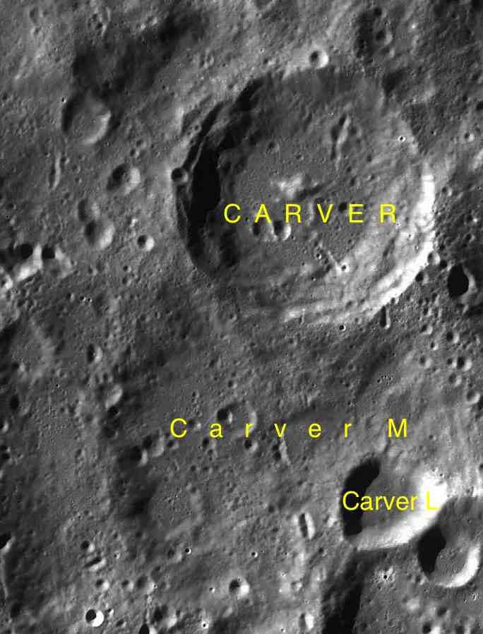 Part of the chart LAC-117 used for the presentation